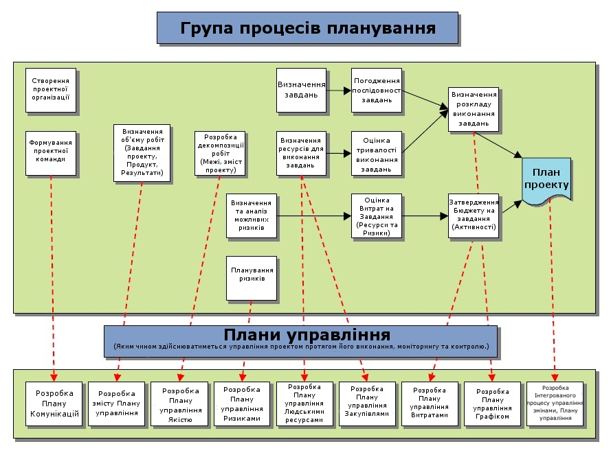 Planning Process Group Activities